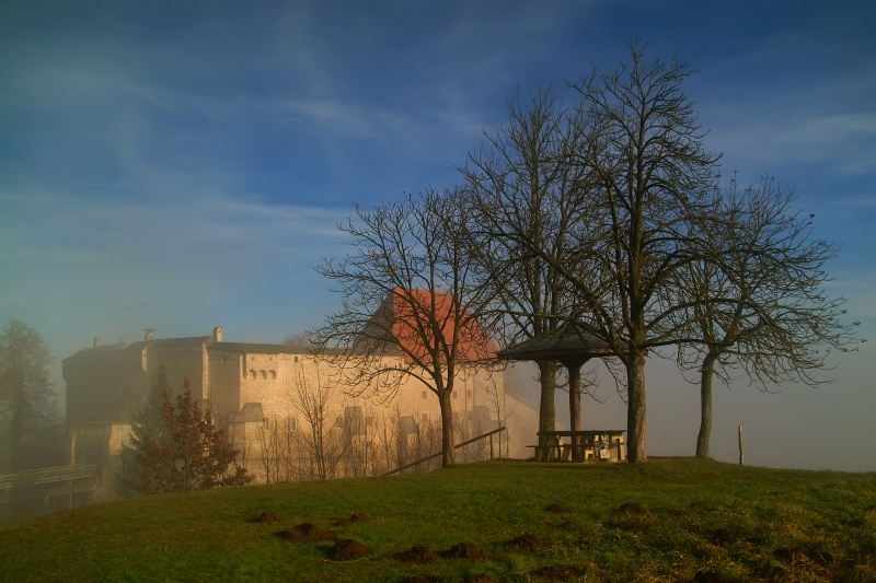 Castle Tittmoning